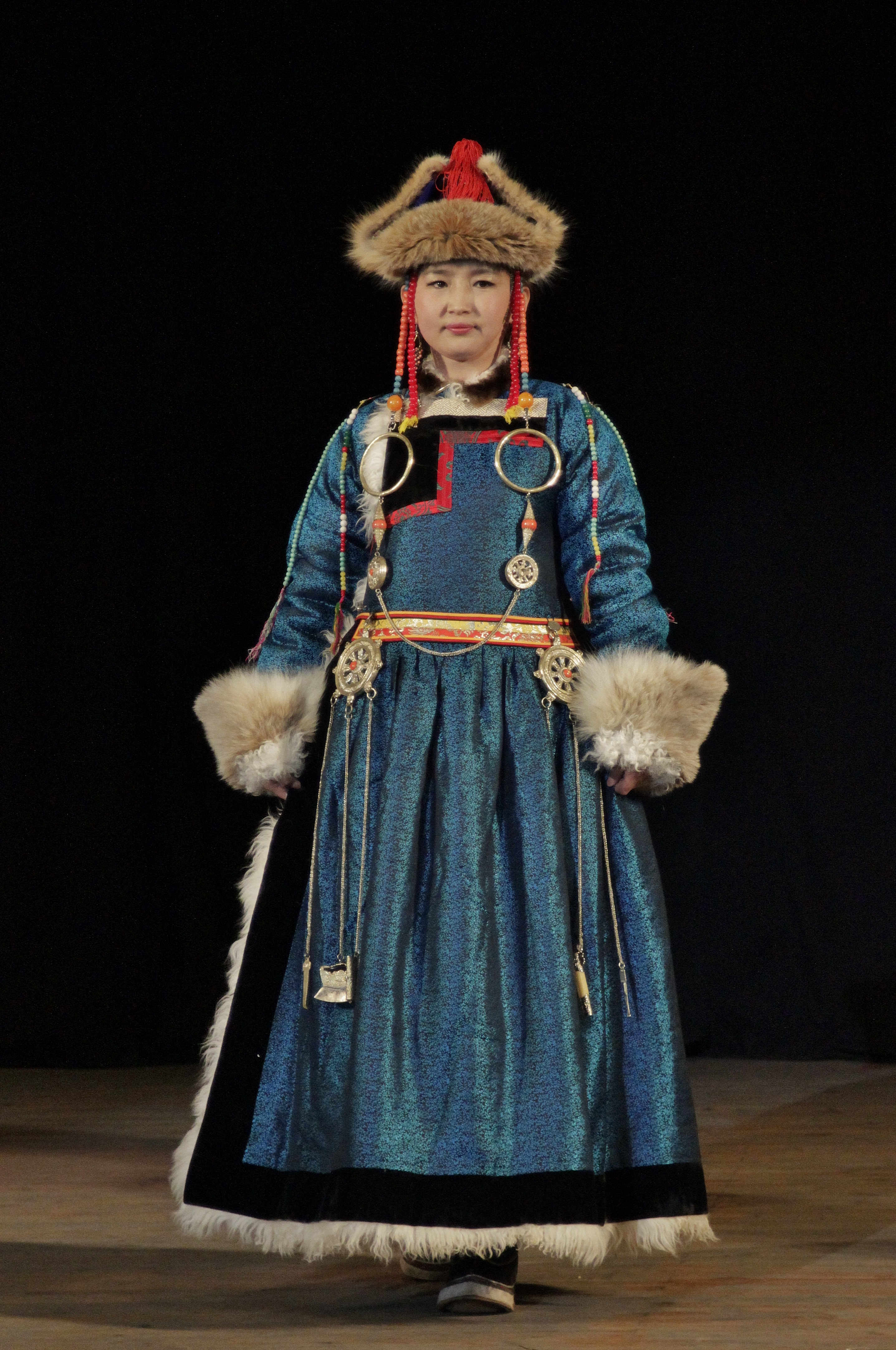 Costume contest at the Festival of Buryat culture "Altargana-2012." Aginsk Buryat district, Transbaikalia territory